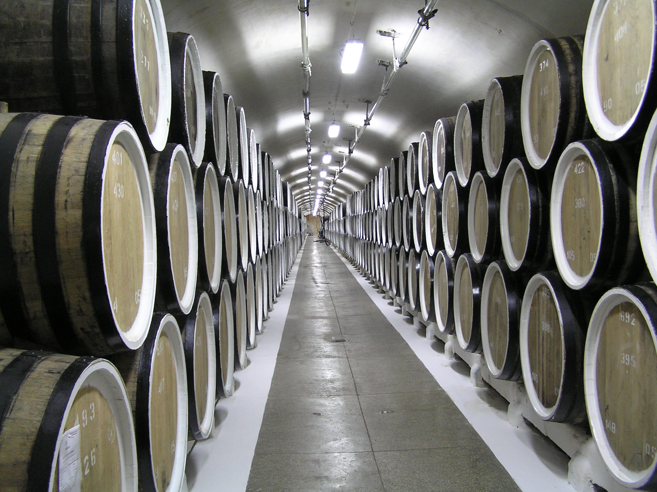 Main wine cellar of Massandra winery, Crimea